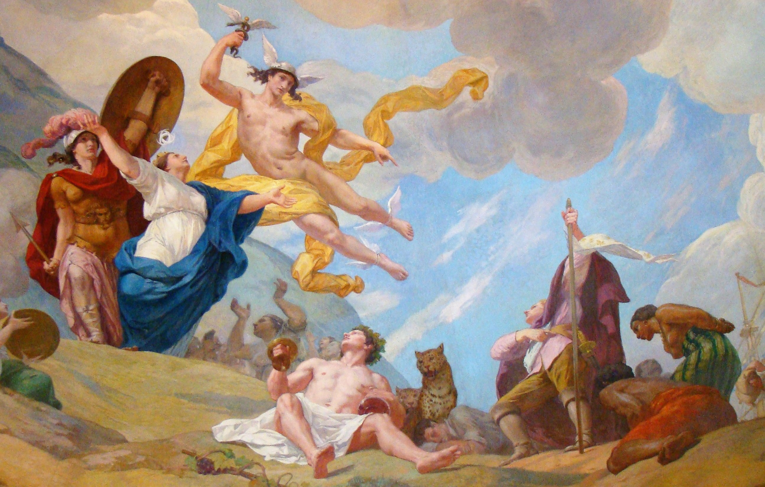 Ceiling of the Grand Théâtre de Bordeaux painted by Claude Robin in 1780, that show an allegory of Bordeaux, protected by Athena and Hermes, with in the foreground the wealth of the city : the wine, the sea trade and the slave.